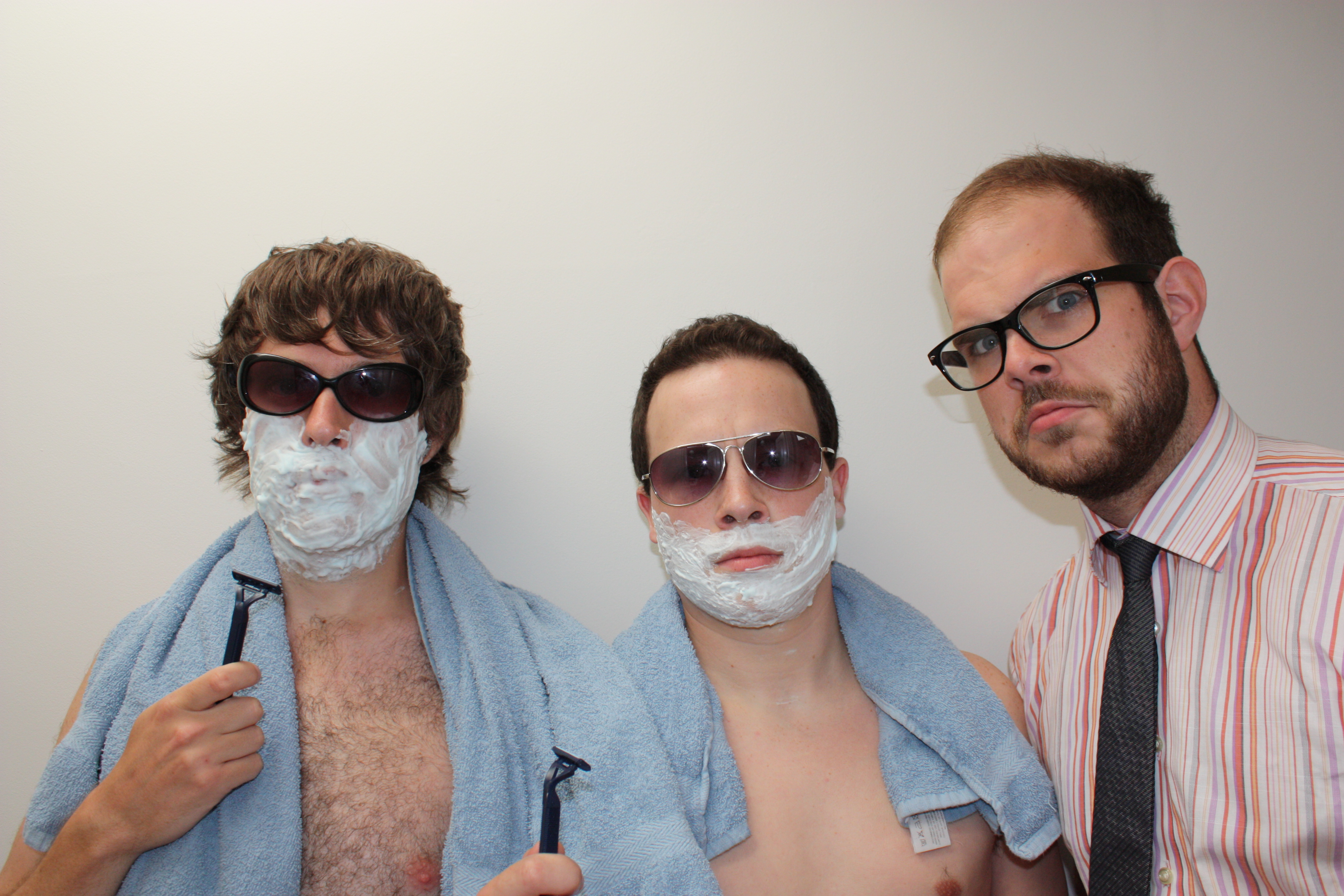 Band photograph taken by Bryony Burrows